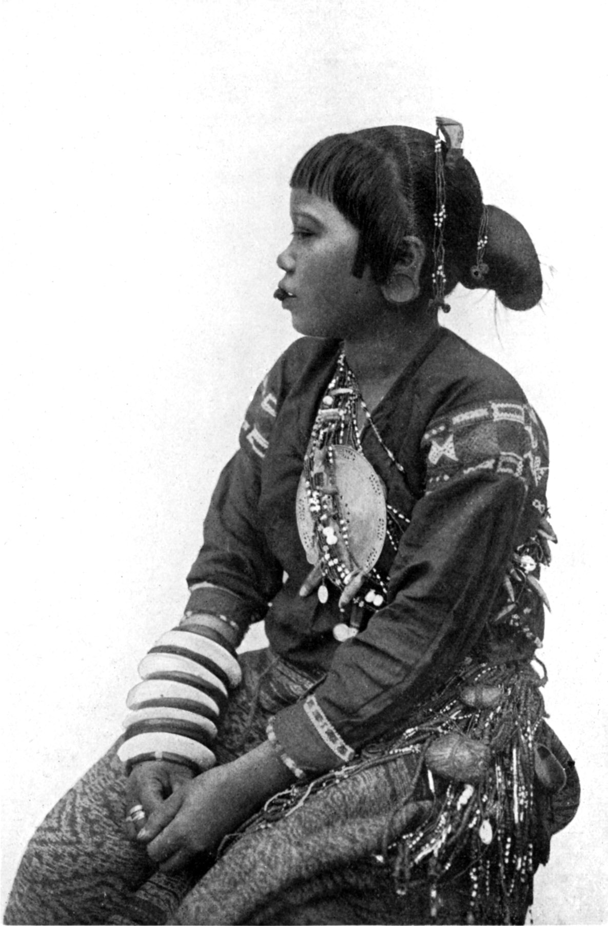 A Mangyan woman. The Mangyans occupy nearly the whole of the interior of the island of Mindoro, and are probably crossed with blood. Note the quid of tobacco carried between the lips in order to blacken the teeth.